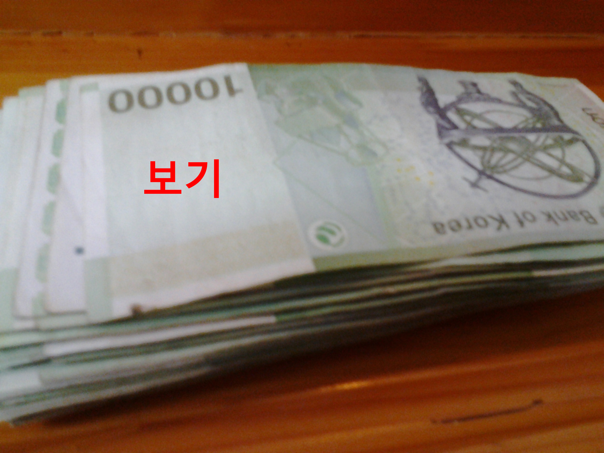 South Korean Currency